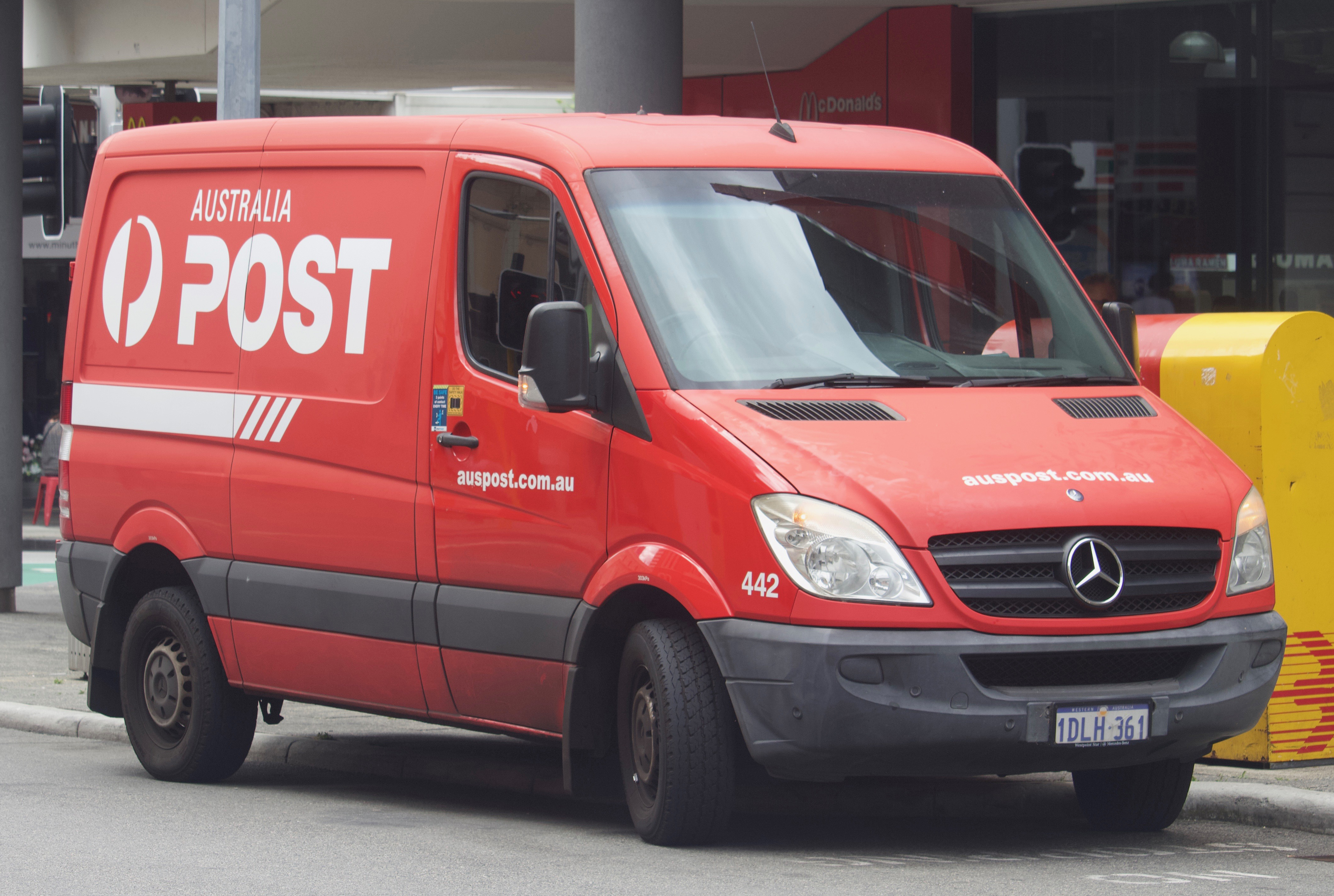 2006-2013 Mercedes-Benz Sprinter (W 906) SWB van, Australia Post. Cannot determine trim, rear shot not taken. Photographed in Perth, Western Australia, Australia.